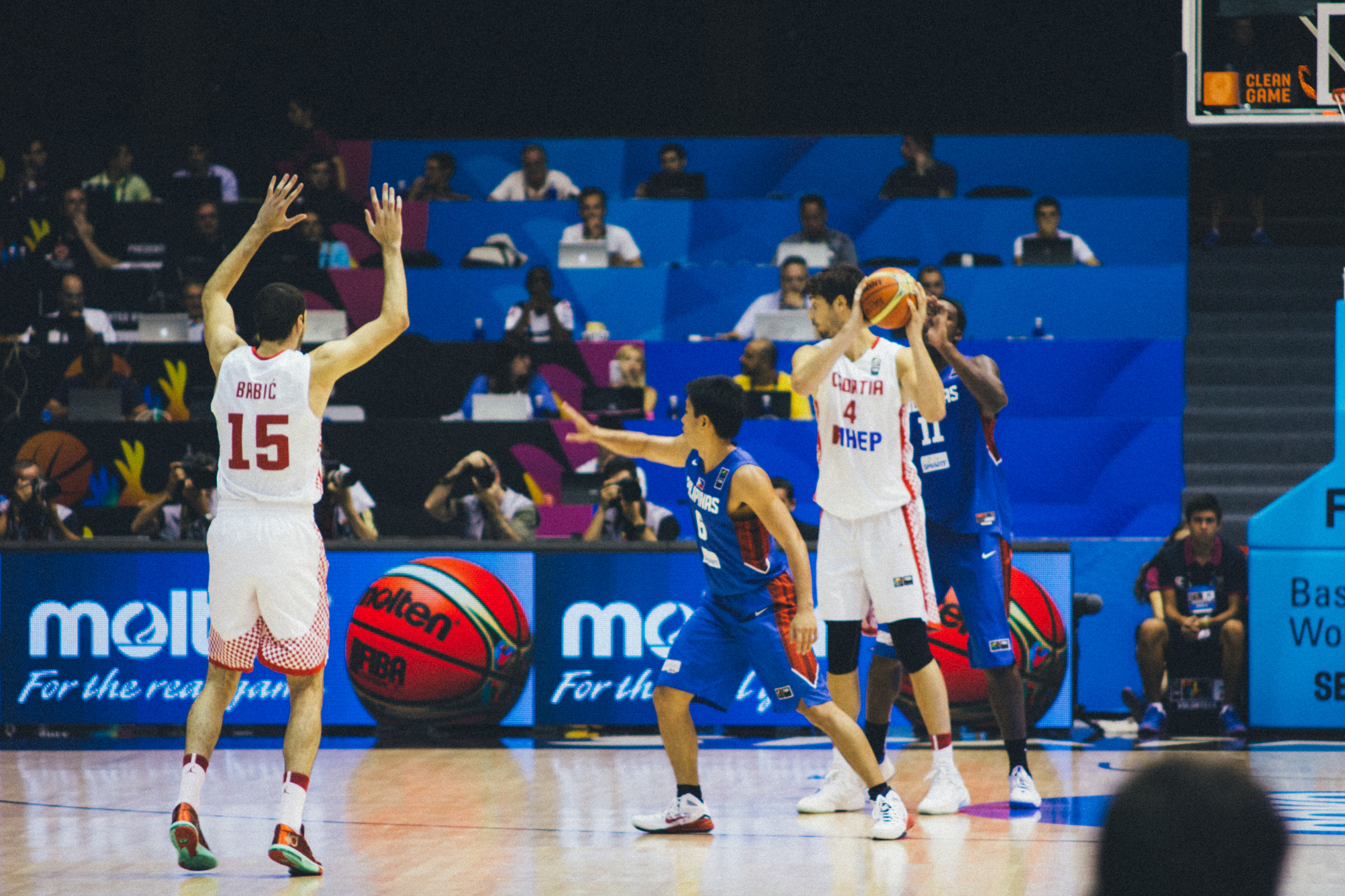 Canon 600D + Super Paragon 135mm 2.8 | Would you like to follow me on Instagram, Twitter, 500px, Tumblr (Project 365) or YouTube?